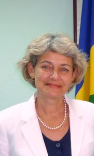 Irina Bokova, Bulgarian Ambassador to France